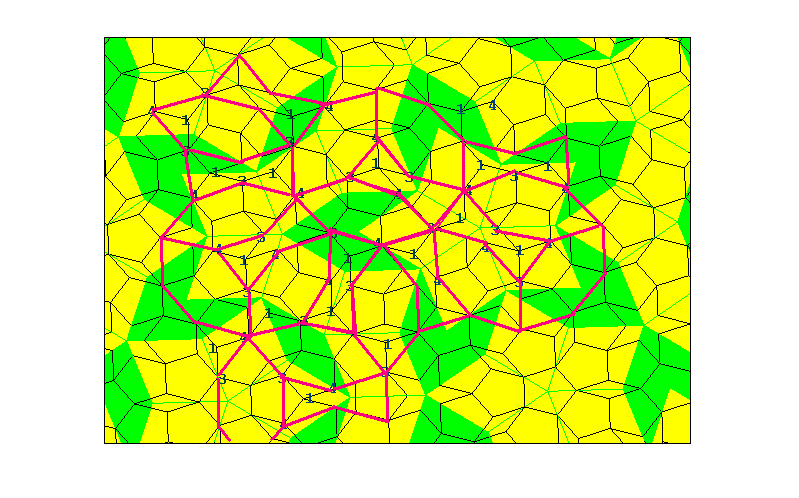 Tie and Navette Tiling drawn on a double Penrose tiling (P1&P3), as described in Luck R., Penrose Sublattices, J. of Non Crystaline Solids 117-8 (90)832-5.